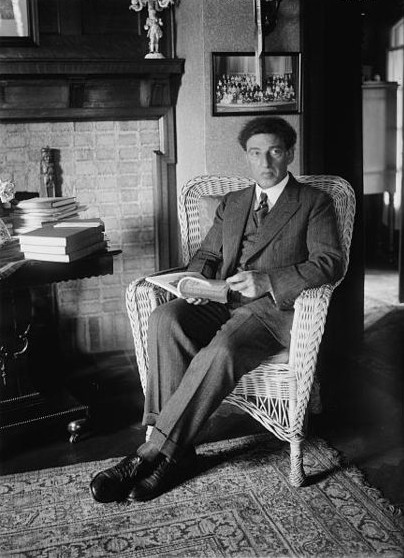 Josef Lhévinne (1874 – 1944), Russian pianist.